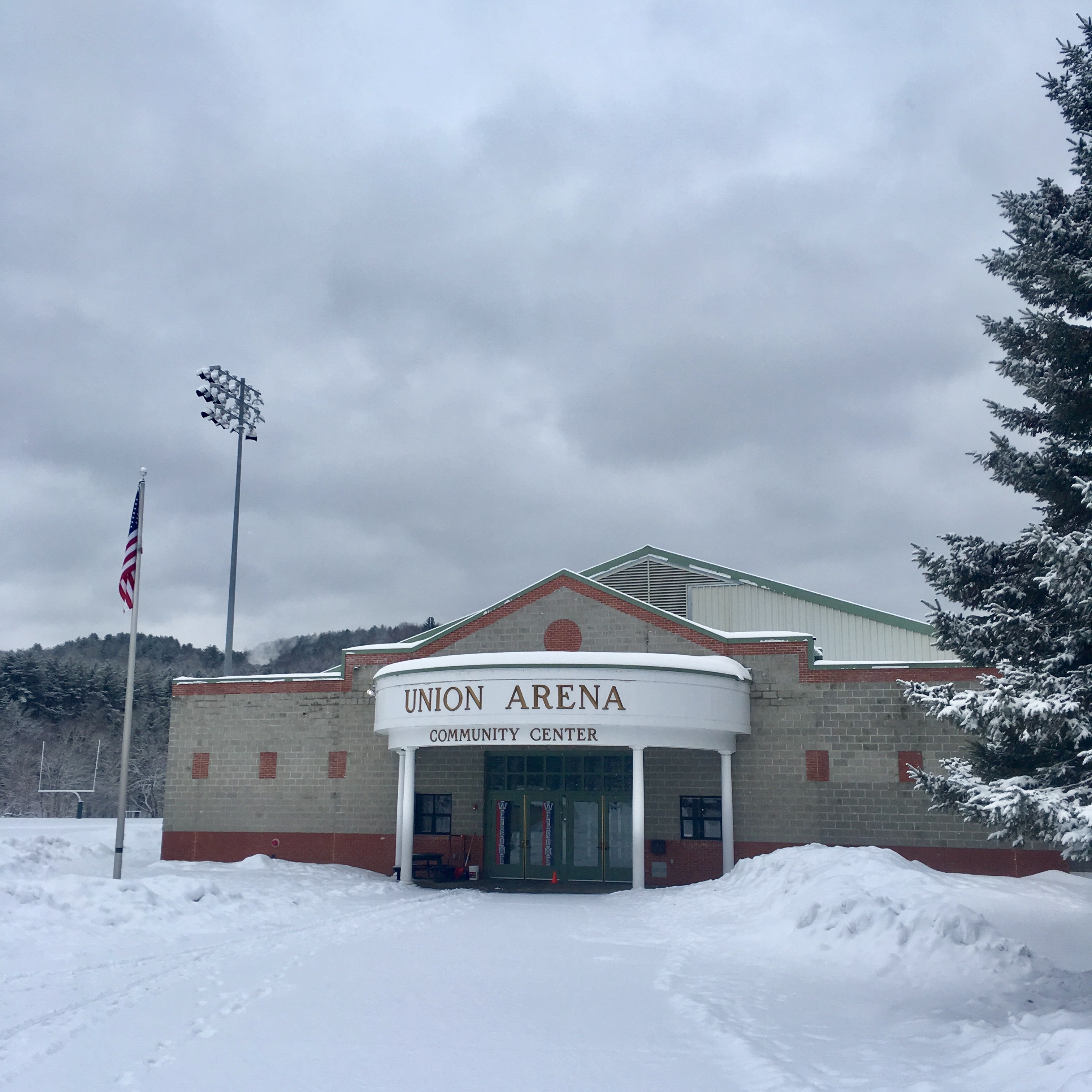 Located on Woodstock High School's campus, Union Arena is the home of ice skating for the Woodstock community.